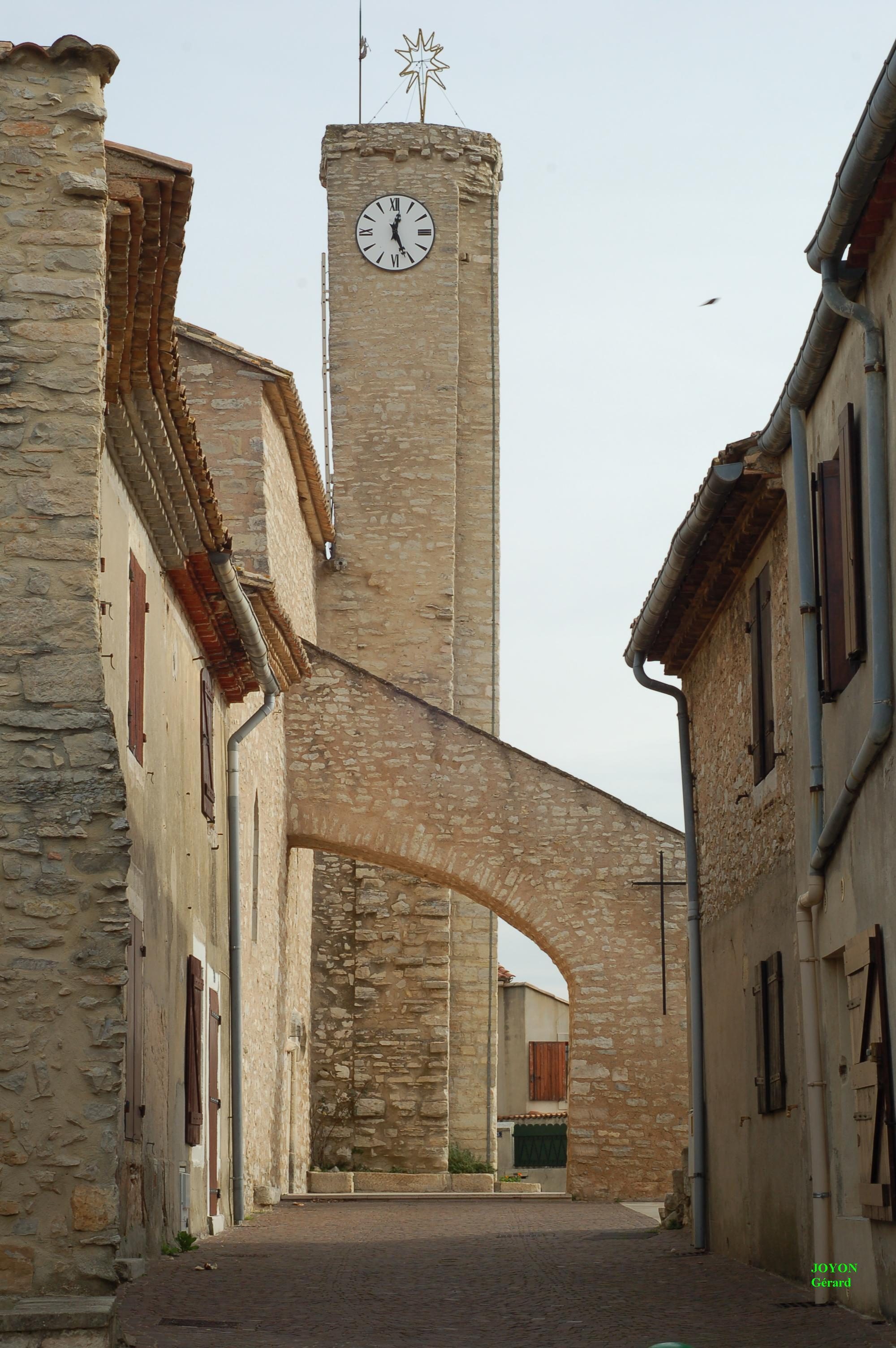 Saint Michael church of Poulx (Gard, France).